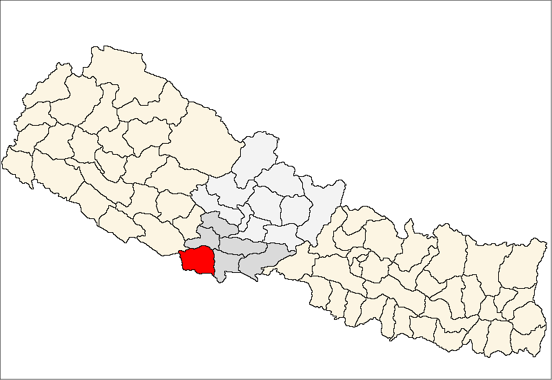 FrenchCarte de localisation dudistrict de Kapilvastu(wp-FR),au Népal (wp-FR).EnglishLocation map ofKapilvastu District(wp-EN),in Nepal (wp-EN).